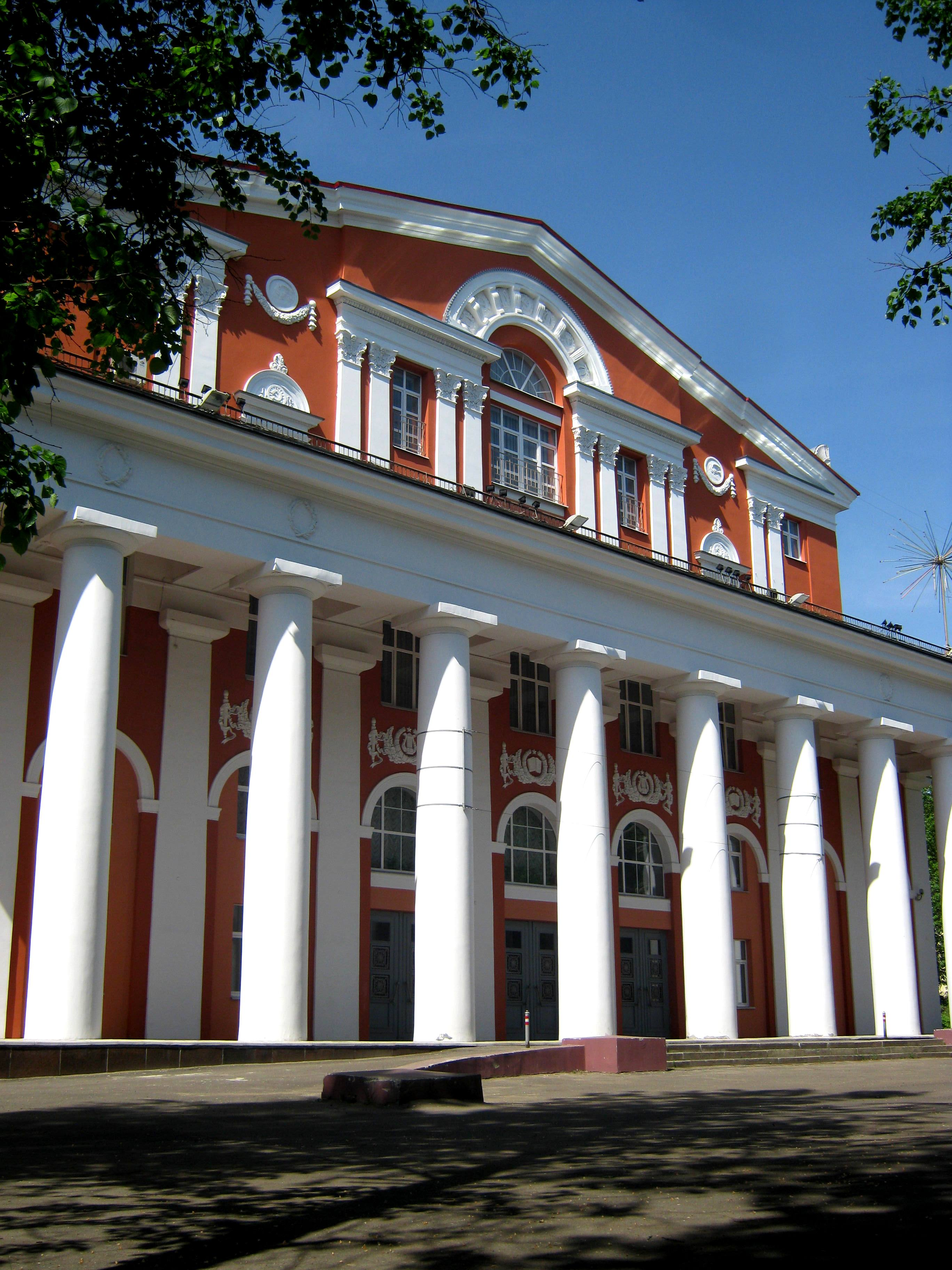 ДК имени Карла Маркса (Электросталь)